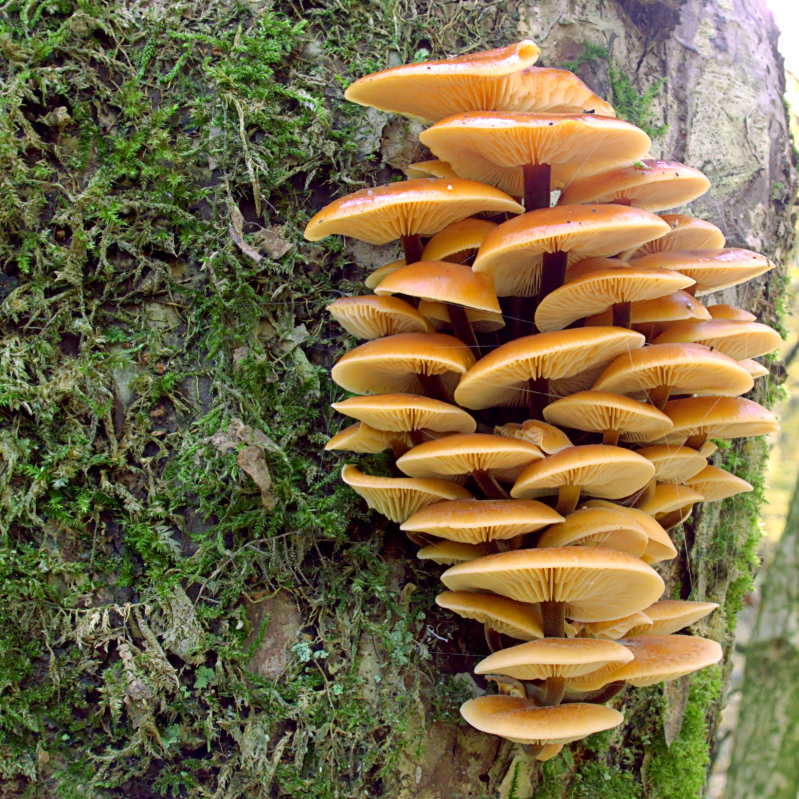 Name: Flammulina velutipes. Family: Marasmiaceae. Location: Münster, NRW, Germany